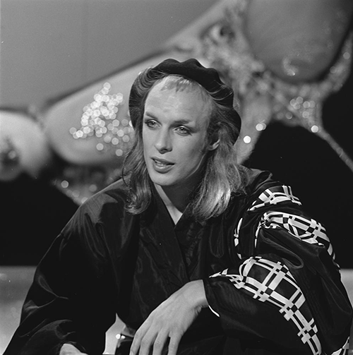 Brian Eno in AVRO's TopPop (Dutch television show) in 1974